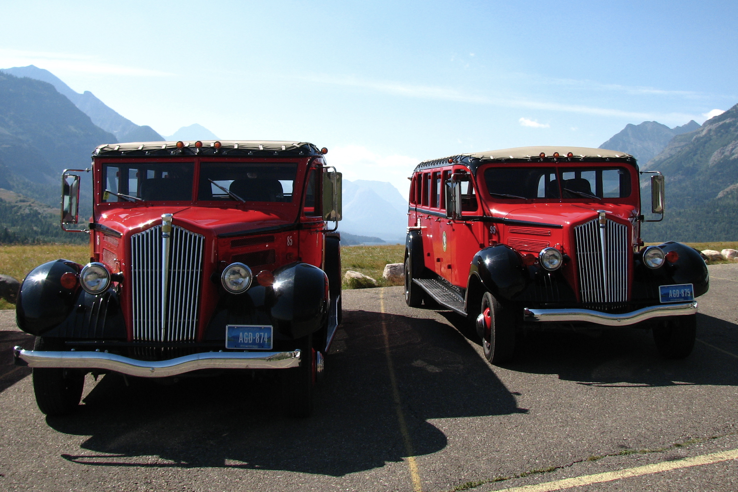 "Red Jammers", tour buses originally made by the White Motor Company in the 1930s, still in use, numerous times remodeled. Seen in Waterton Lakes National Park, Alberta, Canada, in front of the Prince of Wales Hotel